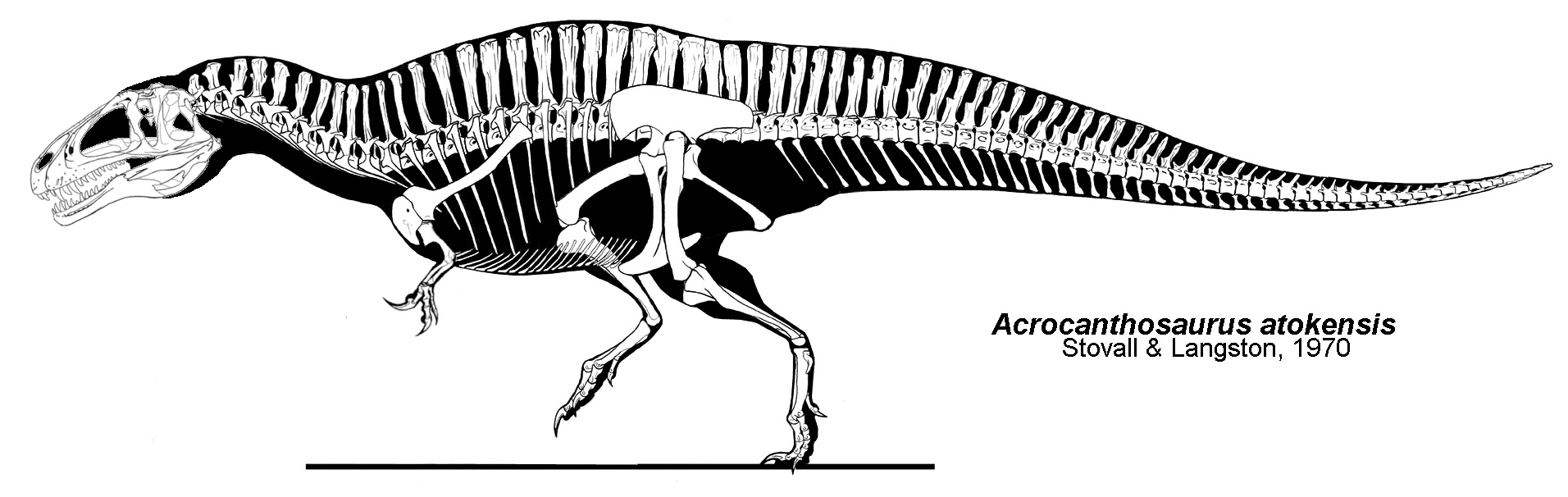 Skeletal reconstruction of Acrocanthosaurus atokensis.